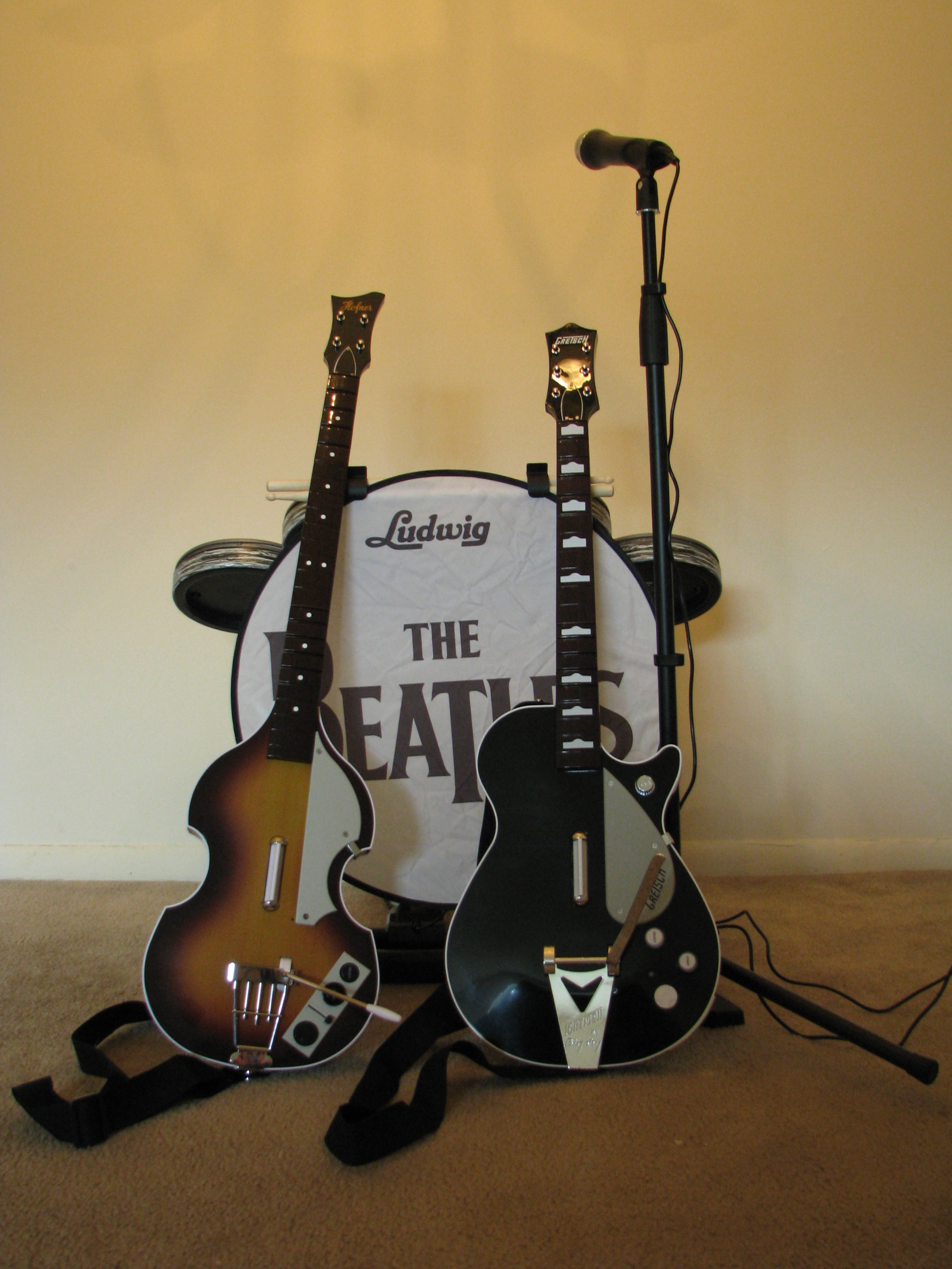 Set of instruments-shaped controllers for the video game The Beatles: Rock Band : a Höfner bass, a Gretsch Duo Jet guitar, a Ludwig drum set and a microphone with its stand.